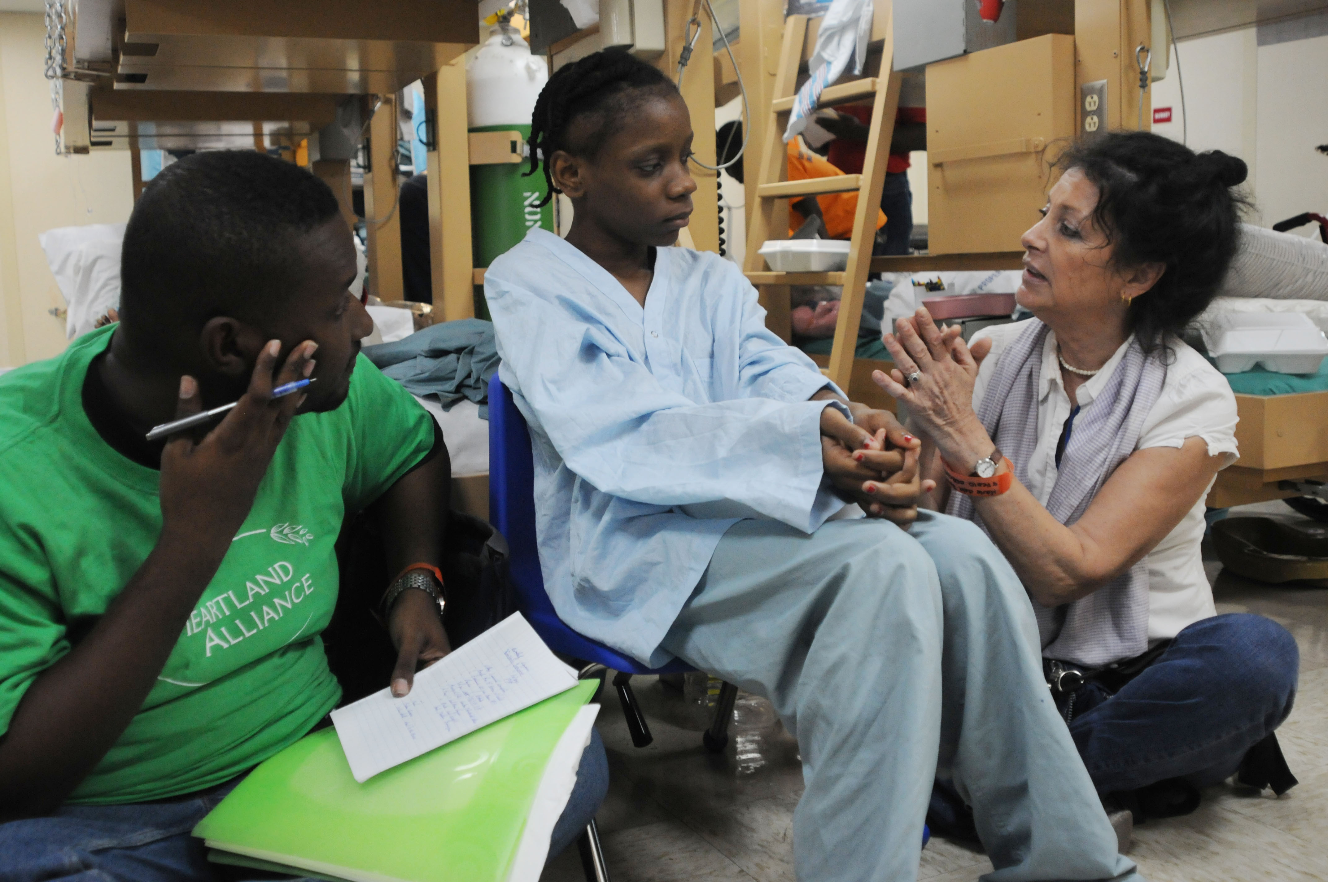 PORT-AU-PRINCE, Haiti (Feb. 8, 2010) A Haitian girl, displaced by a 7.0 magnitude earthquake in Haiti Jan. 12, is interviewed to assess her needs as a displaced child, by Dominique Petit-Papa, left, from Heartland Alliance and Marie De La Soudiere, child displacement director for UNICEF, aboard the Military Sealift Command hospital ship USNS COMFORT (T-AH 20). Comfort is at anchor near Port-au-Prince, Haiti supporting Operation Unified Response. (U.S. Navy photo by Mass Communication Specialist 2nd Class Chelsea Kennedy/Released)